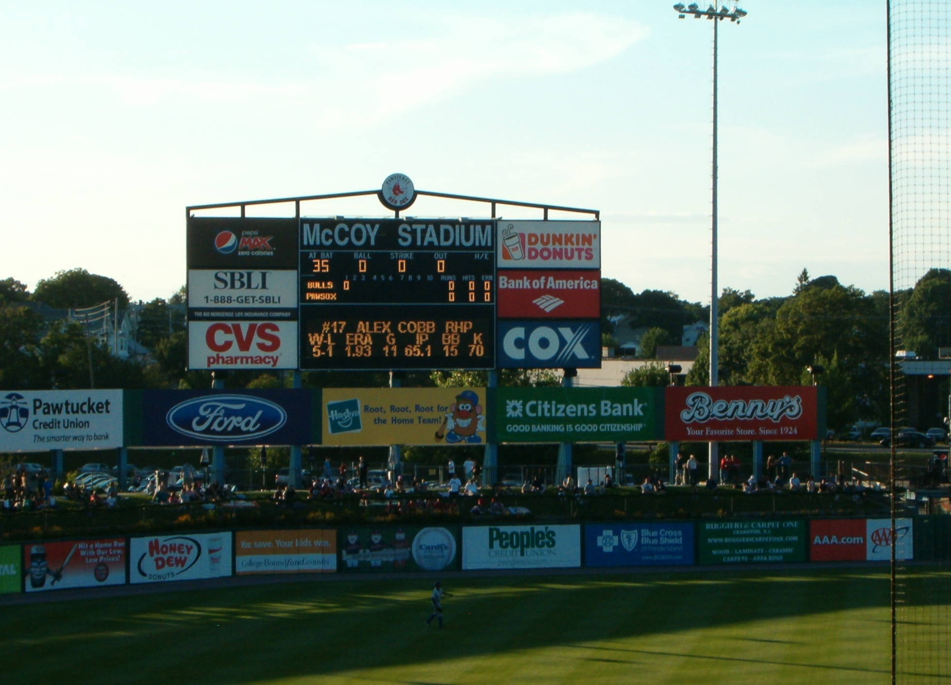 The left field wall of McCoy Stadium in Pawtucket, Rhode Island.